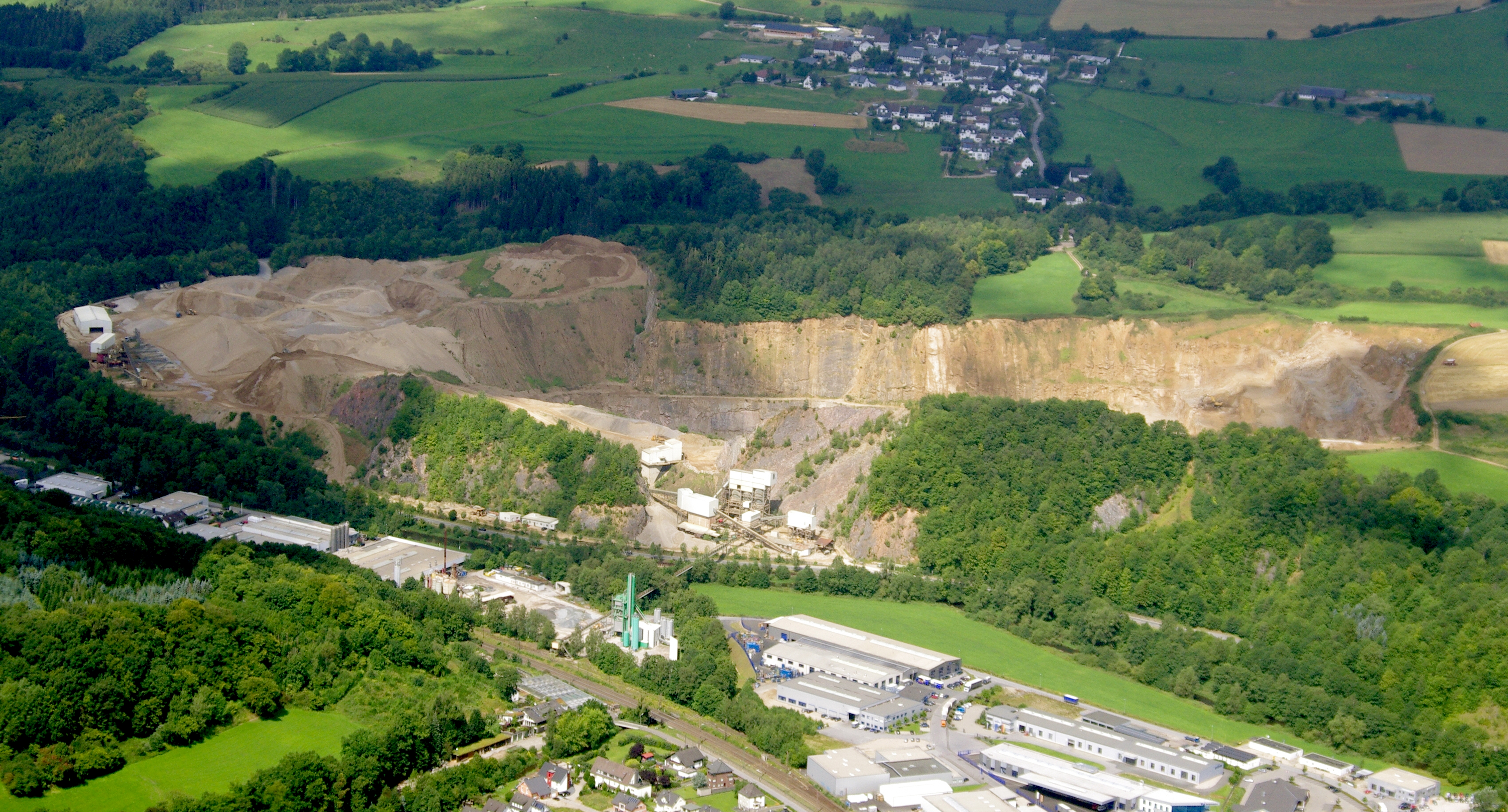 Quarry near Grevenbrück, Germany